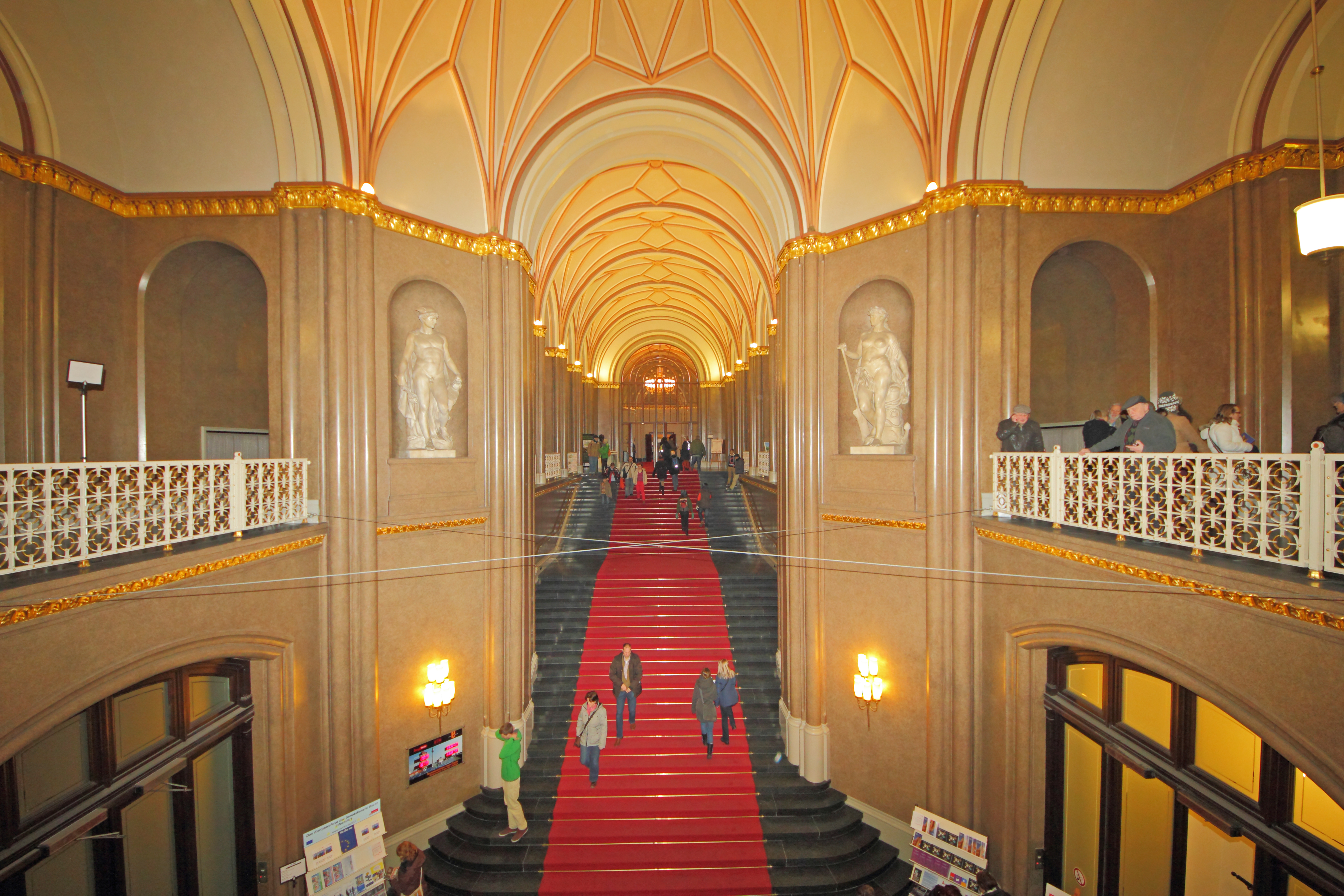 Interiors of Red Townhall in Berlin, Germany. Taken during the Night of Museums, March 2013.